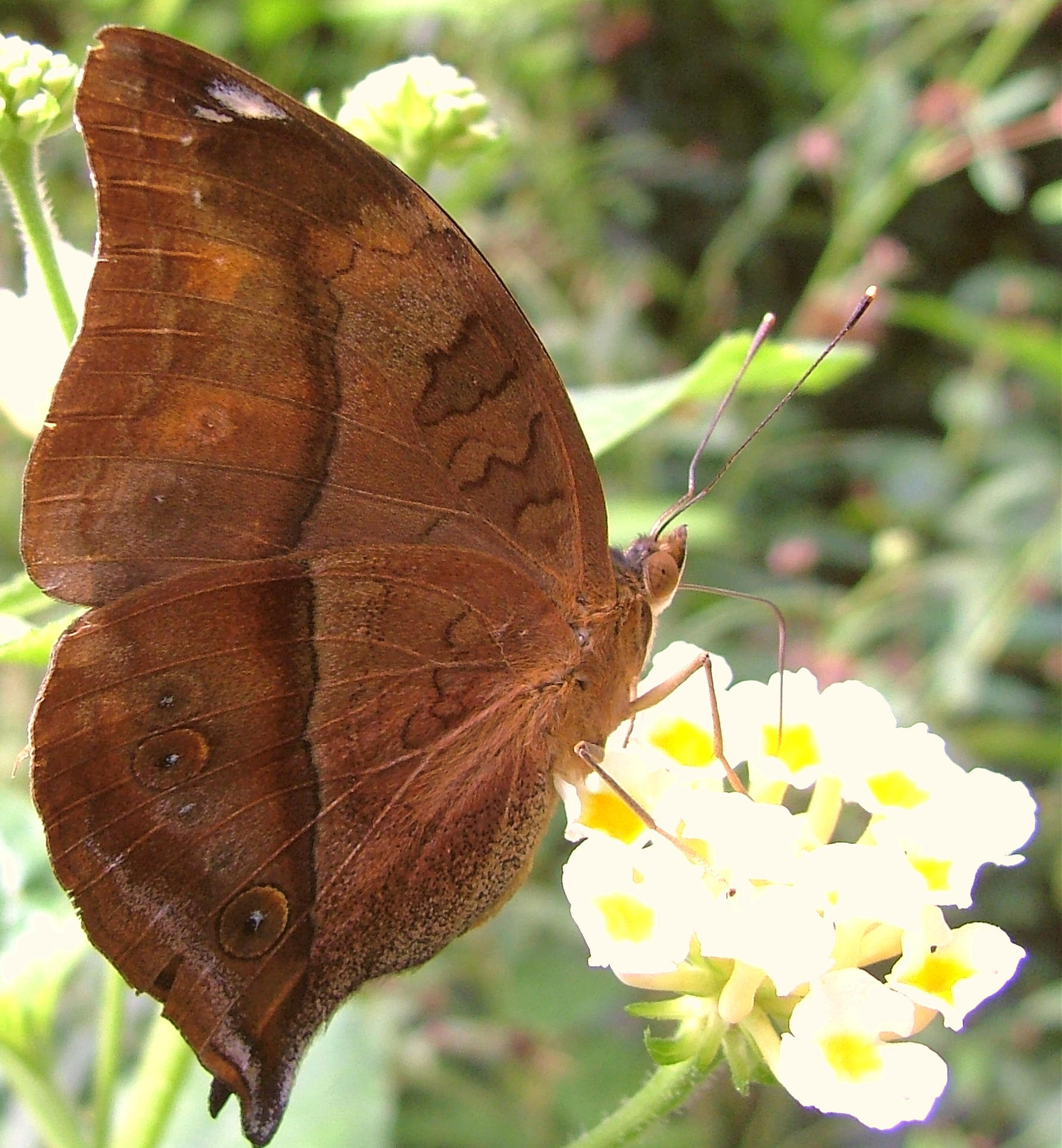 Highest Explore Position #430 ~ On October 11th 2007.